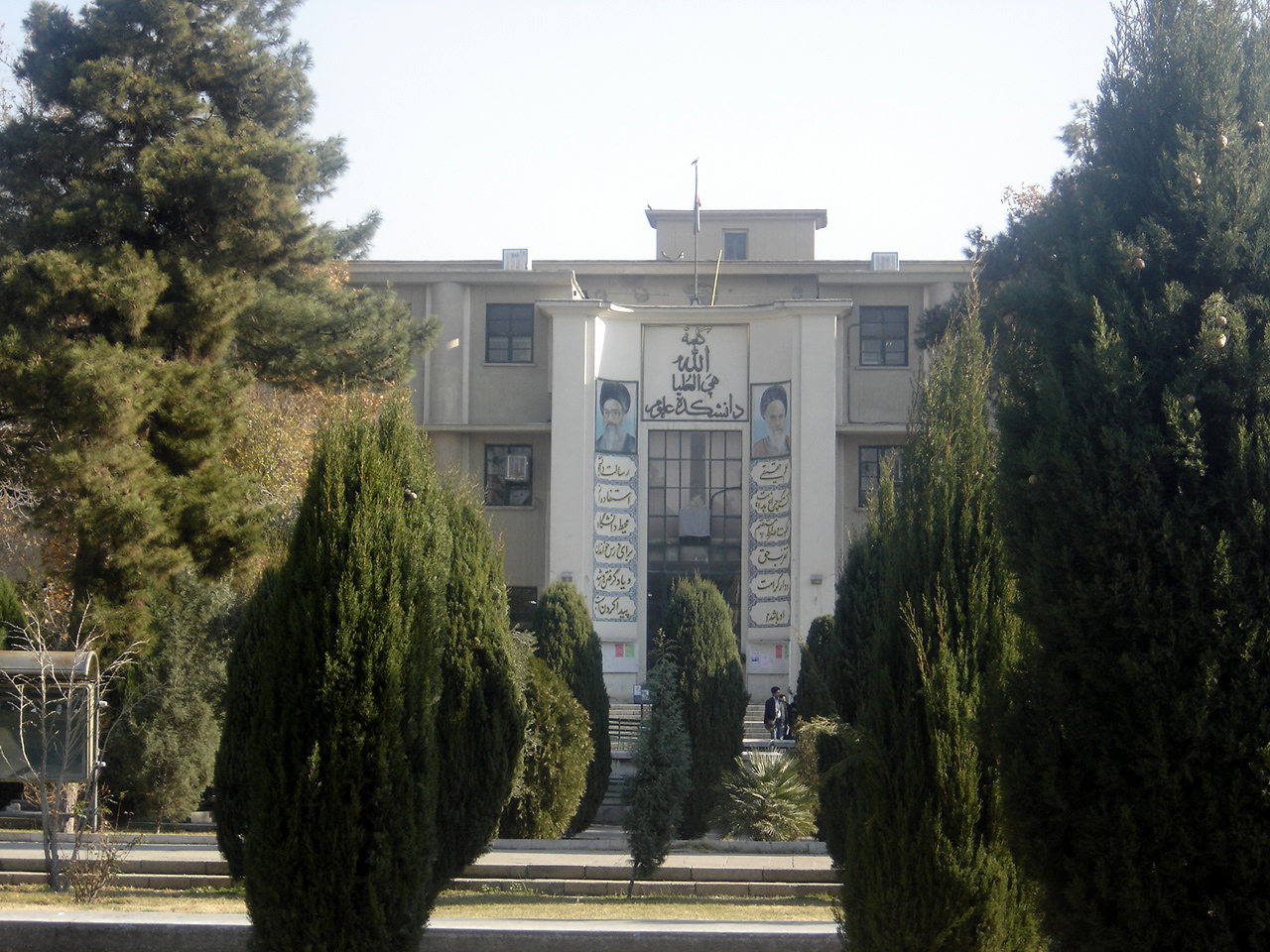 University of Tehran Faculty of Sciences